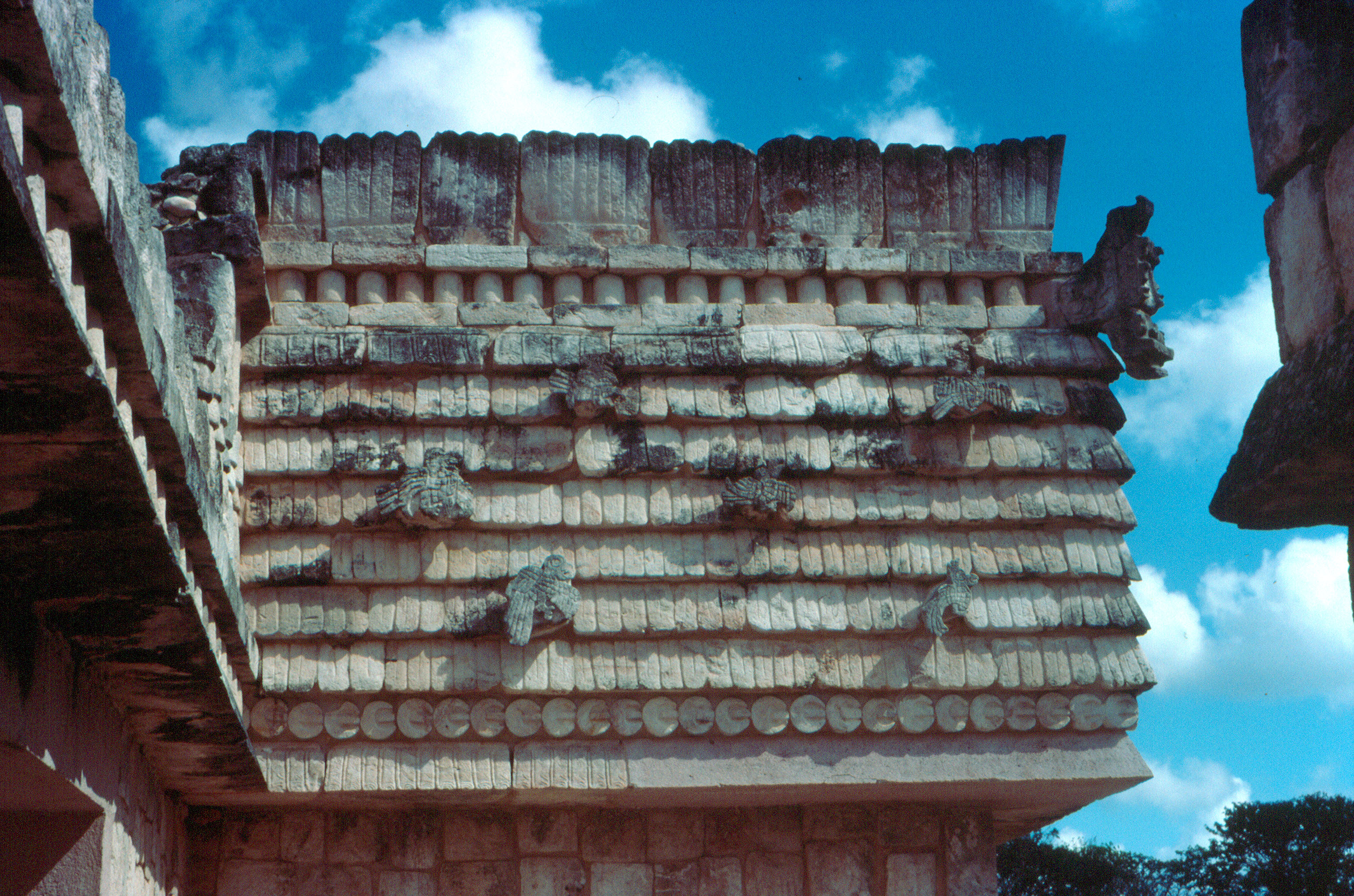 Facade of the west building, cout of the birds, Uxmal, Yucatan, Mexico.